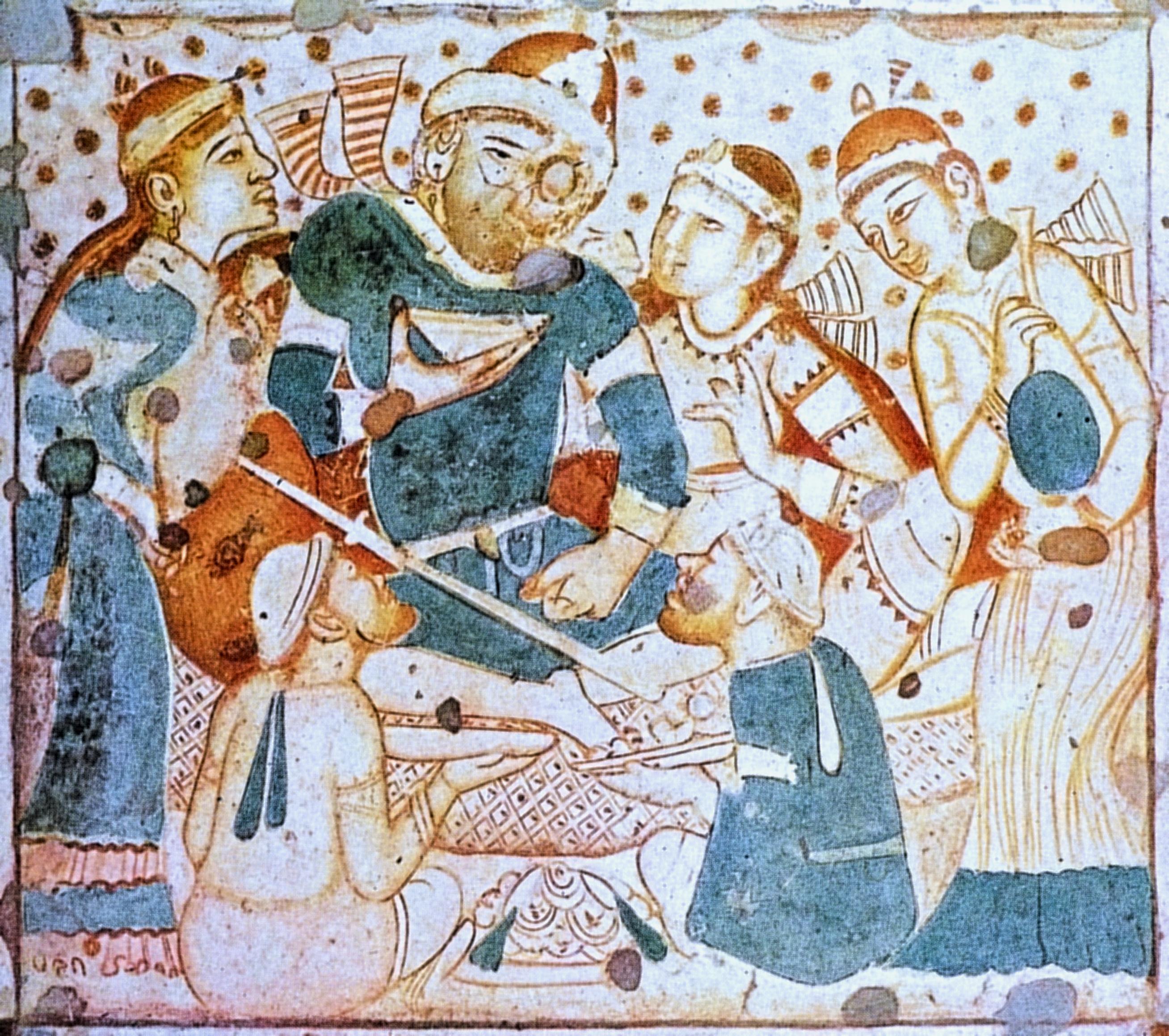 Ajanta Cave 1 ceiling foreign dignitary